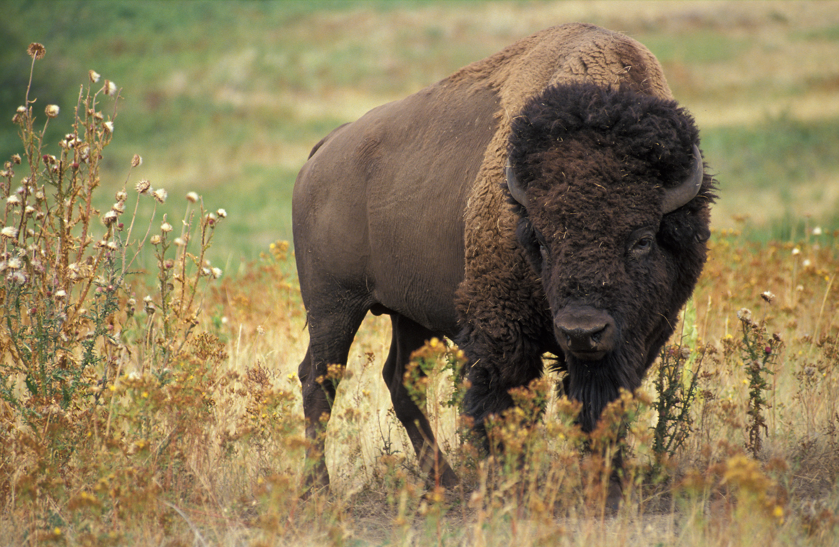 Bison bison. Original caption: "scientists are helping users of American rangelands meet the challenge of managing multiple uses sustainably.")